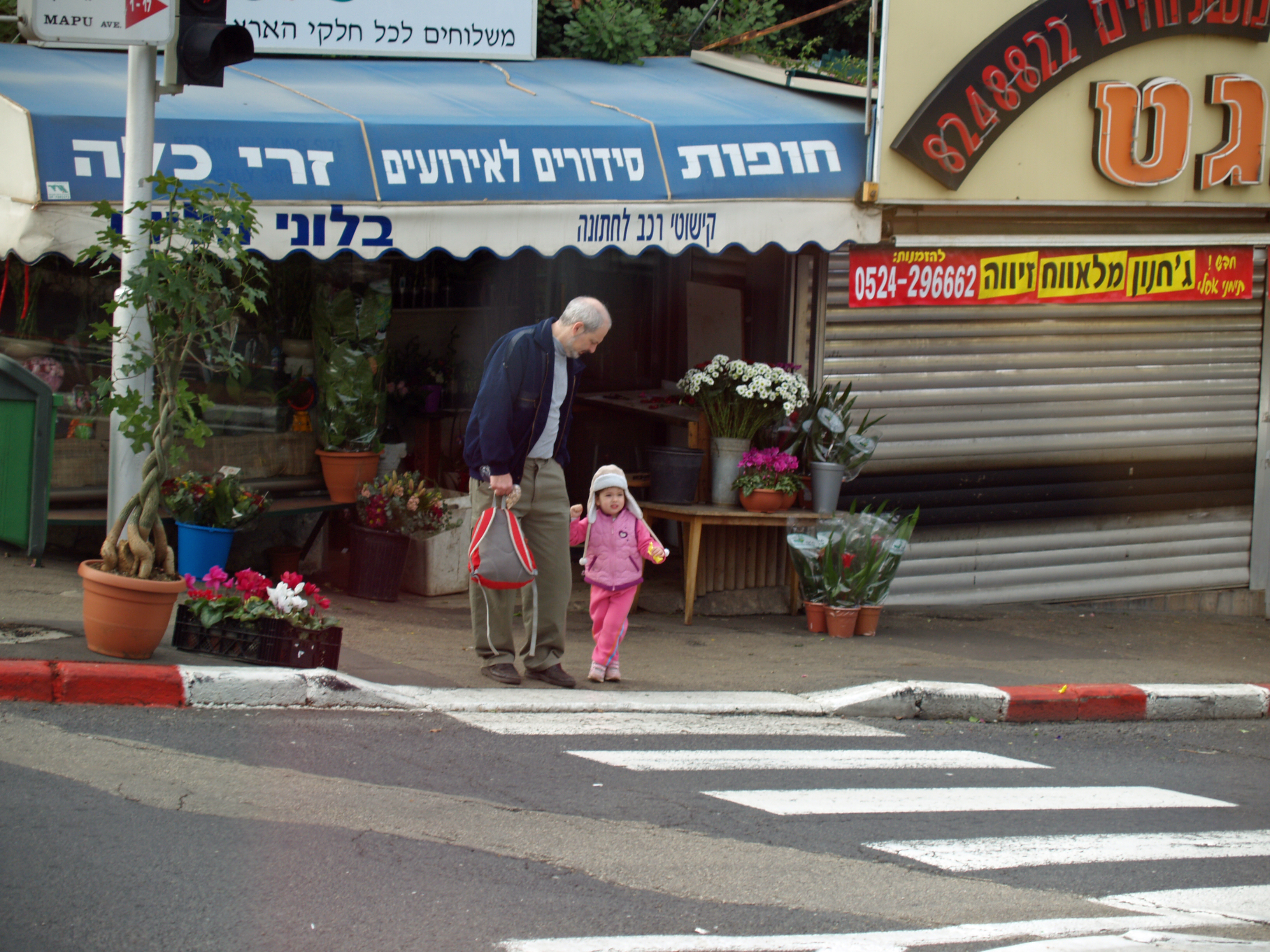 Adult and child getting ready to cross the street in Haifa, Israel.